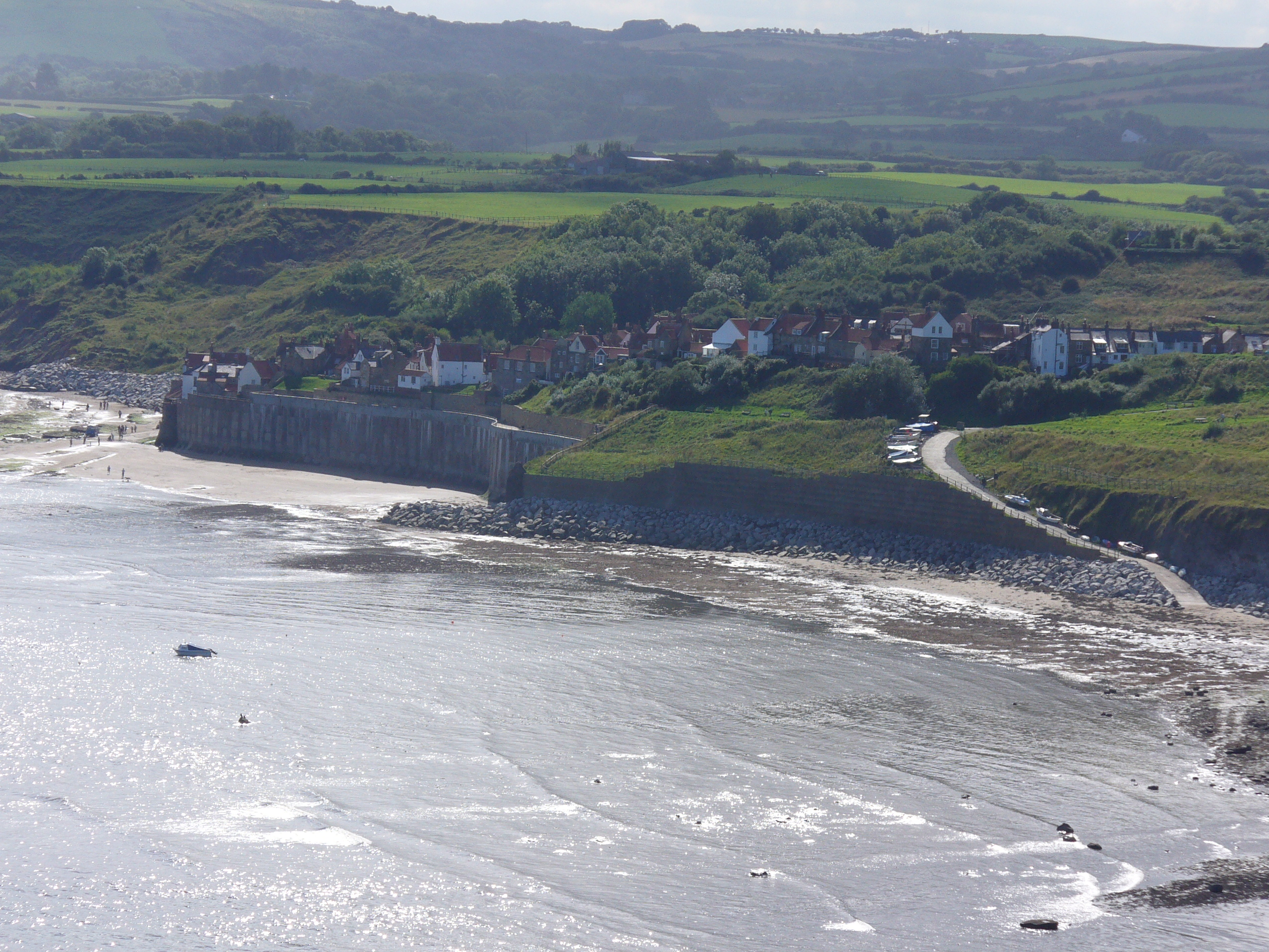 View of Robin Hood's Bay (North Yorkshire, England) taken from the Cleveland Way to the North.